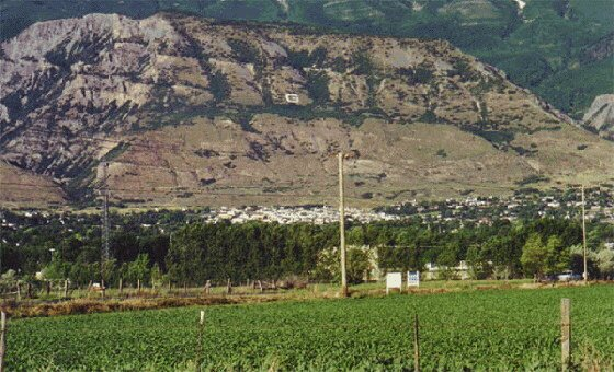 View of Little Mountain, Pleasant Grove, Utah, displaying a hillside letter "G".